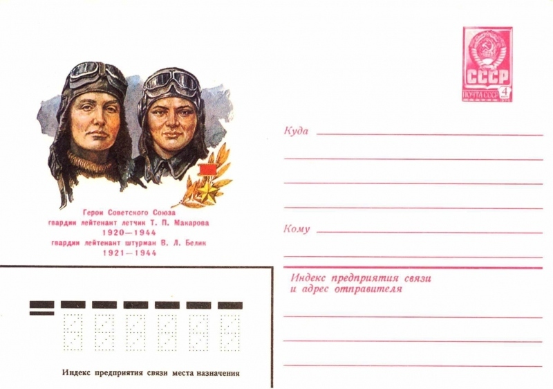 A 1981 Soviet envelope featuring Tatyana Makarova and Vera Belik.